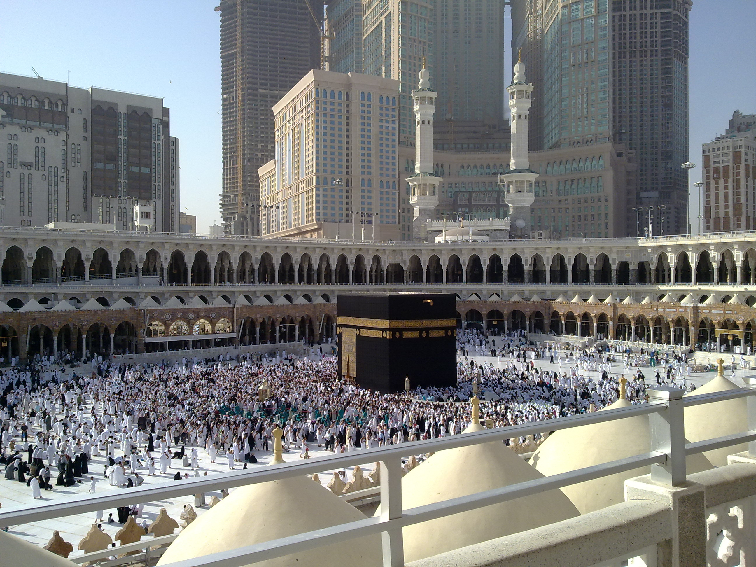 Kaaba in macca